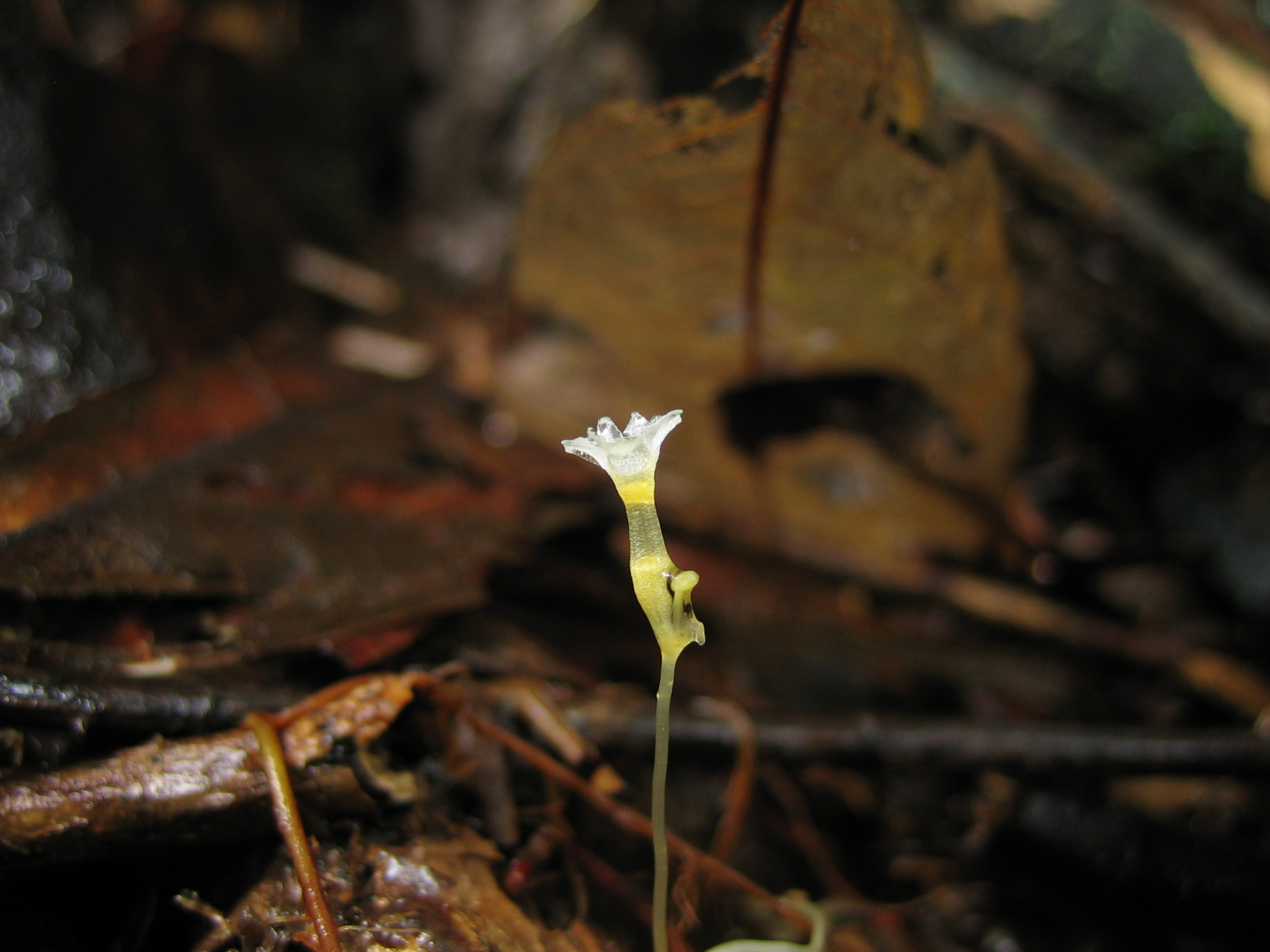 Gymnosiphon bekensis, Korup National Park, Cameroon. Taken on 09/09/2006